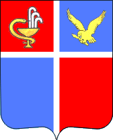 Essentuki (Stavropol krai), coat of arms